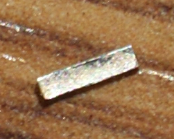 A small sample of Radium-226 (from "Anton Model 5" Geiger counter; dimensions: 1.5*3 mm)